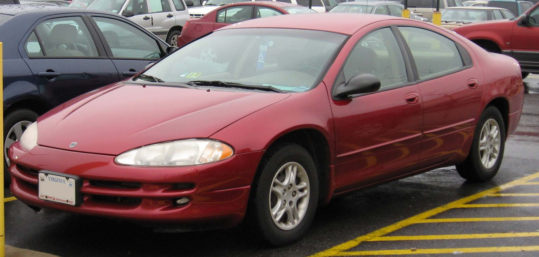 1998-2004 Dodge Intrepid photographed in USA.